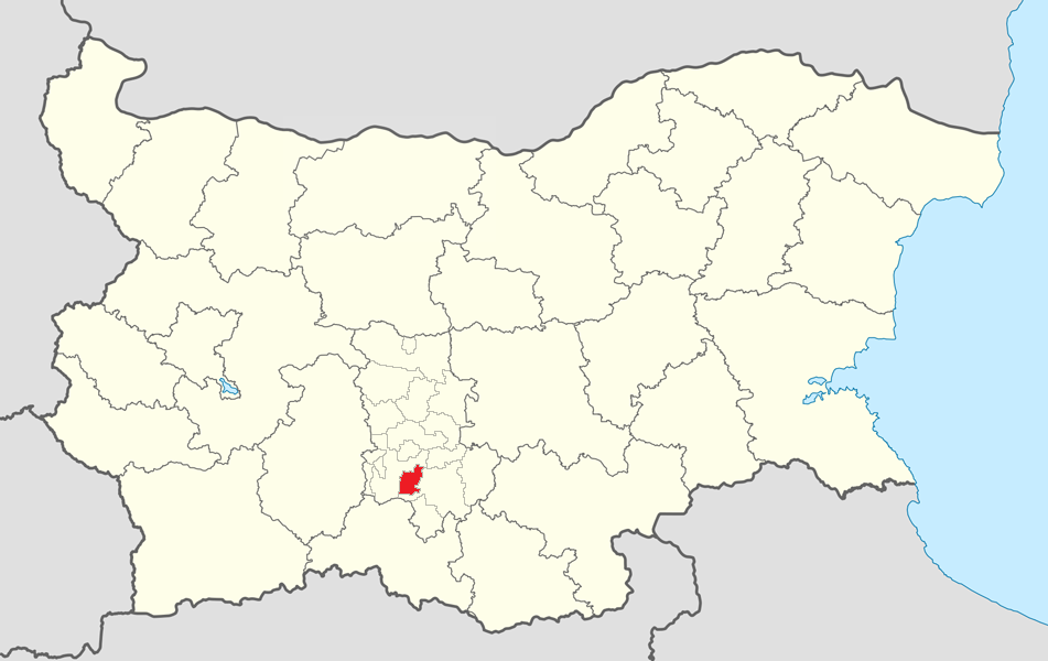 Location map of Kuklen Municipality within Bulgaria and Plovdiv province